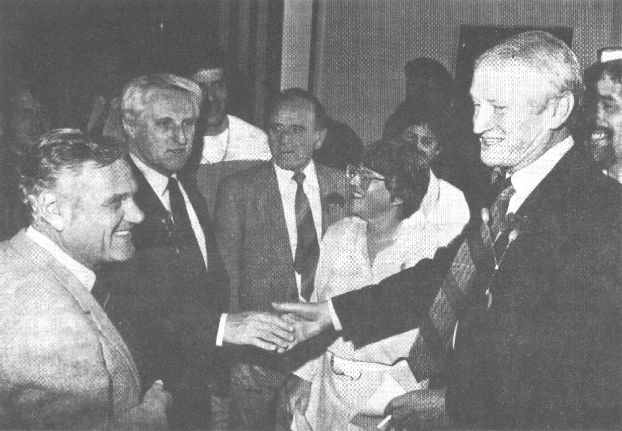 A photo of Moshe Shem Tov stood next to Mayor of Tel Aviv Yaffo Shlomo Lahat, who shook hands with the donator Leon Mow, with the Committee of the Association of the Deaf in Israel ("Acha"). Mow donated for the renovation of a Helen Keller house in Tel Aviv. Right to Shem Tov, stood Chava Savir, the General Secretary of Acha. Behind Mow, stood Yehuda Zino, the Chief Manager of Helen Keller house. On the left stood Chaim Apter, who was an Acha former chairman, and a Secretary of The World Organization of Jewish Deaf, when was photographed.